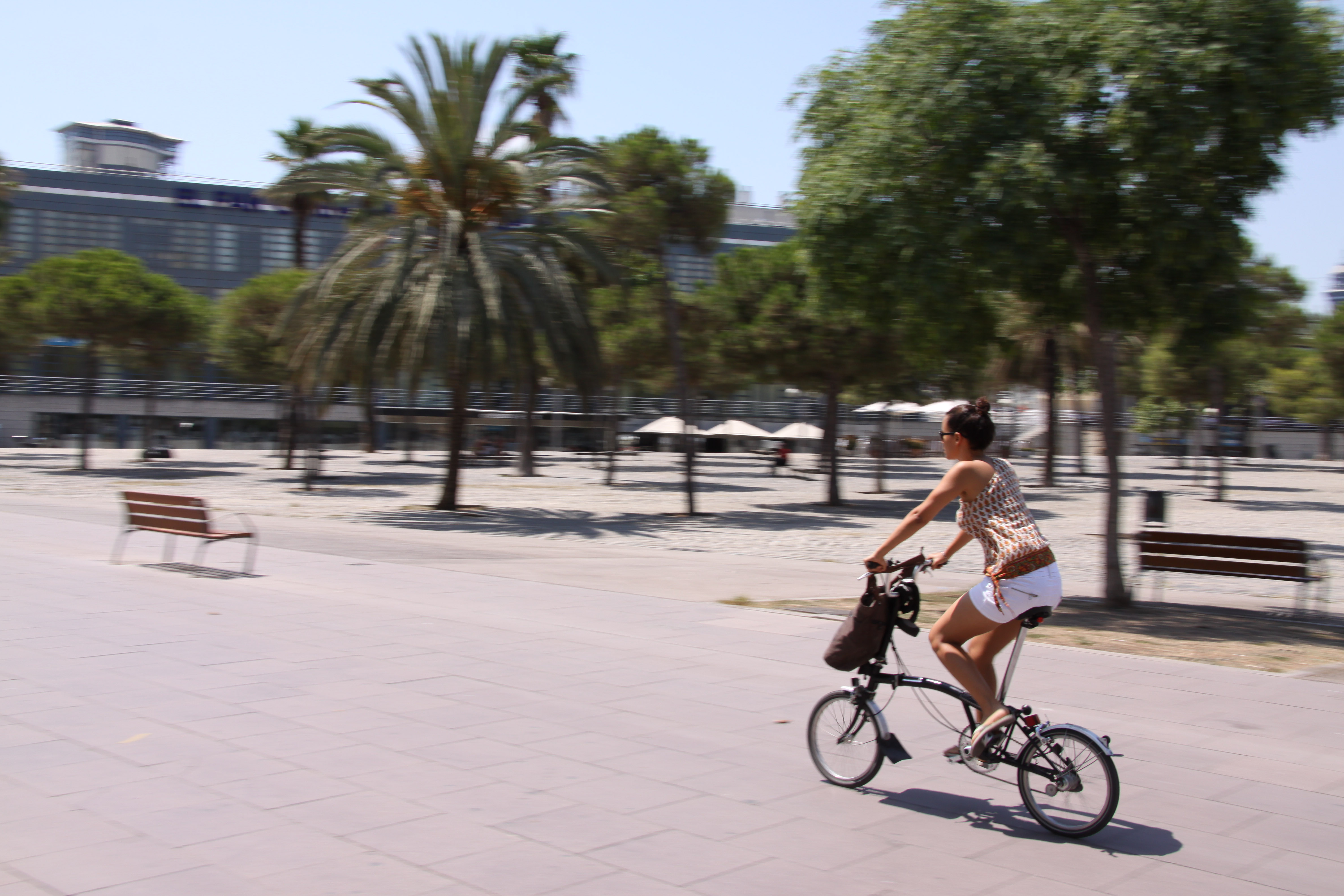 to the beach in my Brompton